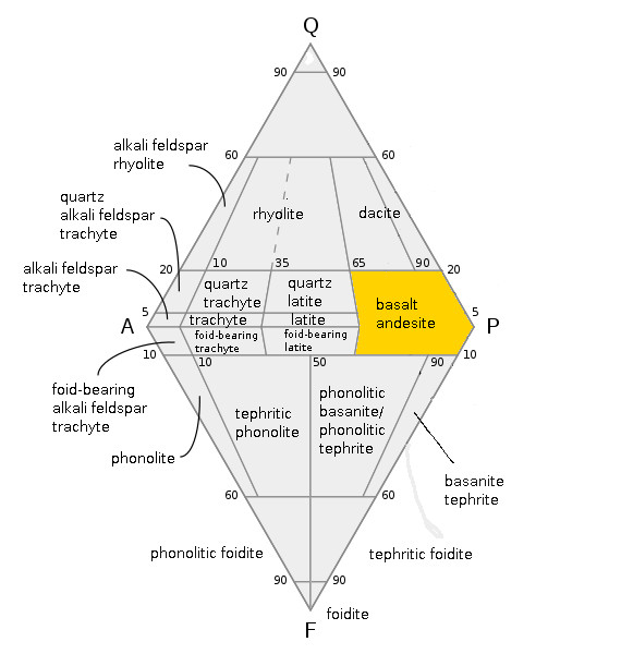 This is an image of the QAPF diagram used to classify volcanic rocks when the modal mineralogy can be determined. The basalt/andesite field is highlighted in yellow. Basalt has SiO2 52%.